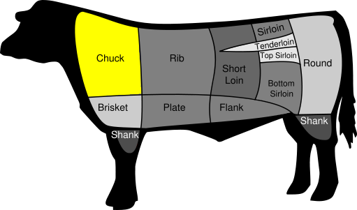 Uploaded for an infobox